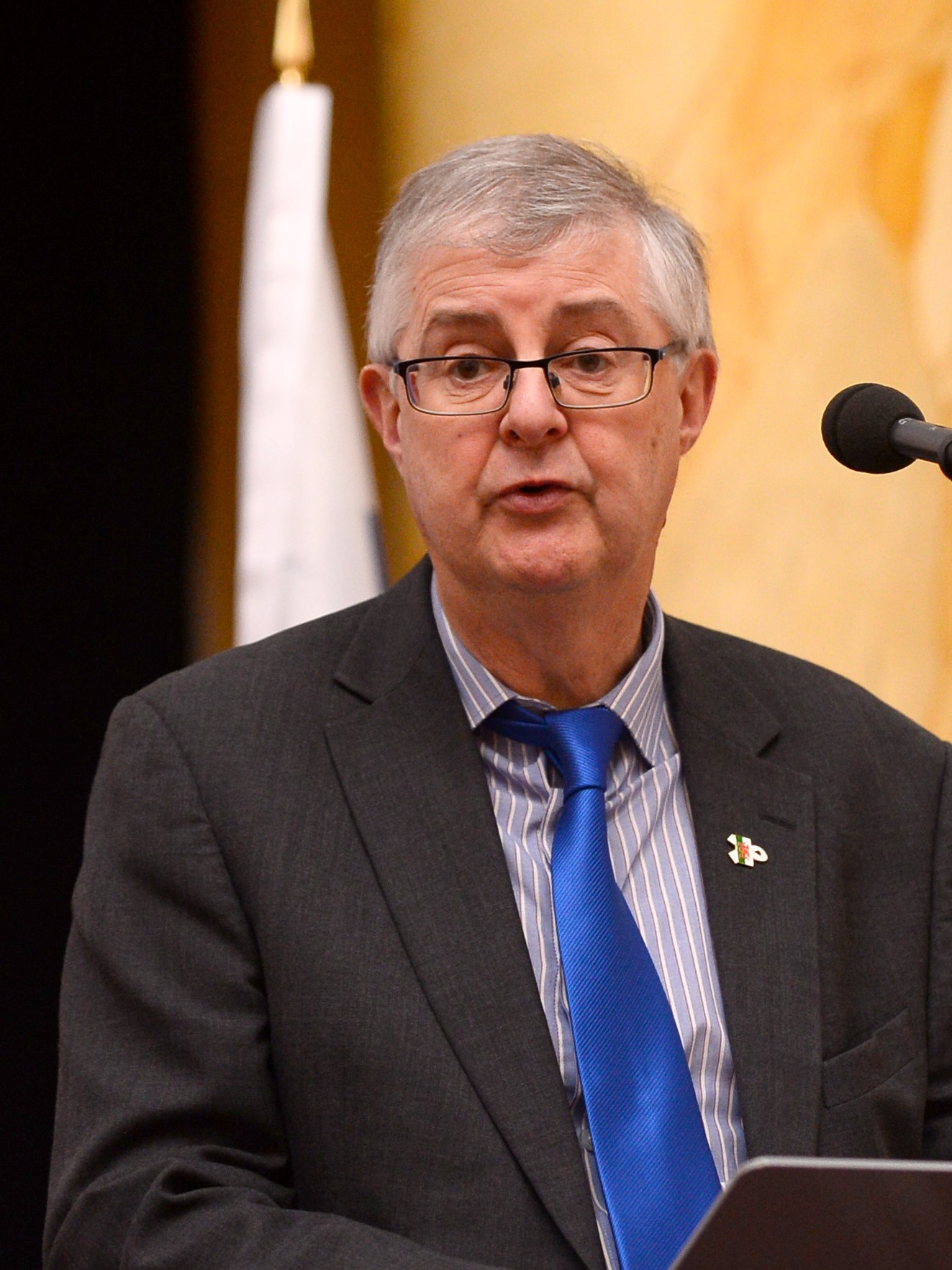 Welsh First Minister and AM Mark Drakeford speaking at the Conference of Peripheral Maritime Regions Brexit Conference 'European Cooperation Beyond Brexit', co-organised by the Welsh Government (16 November 2017, Cardiff, Wales)